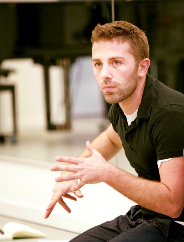 Choreographer & Artistic Director